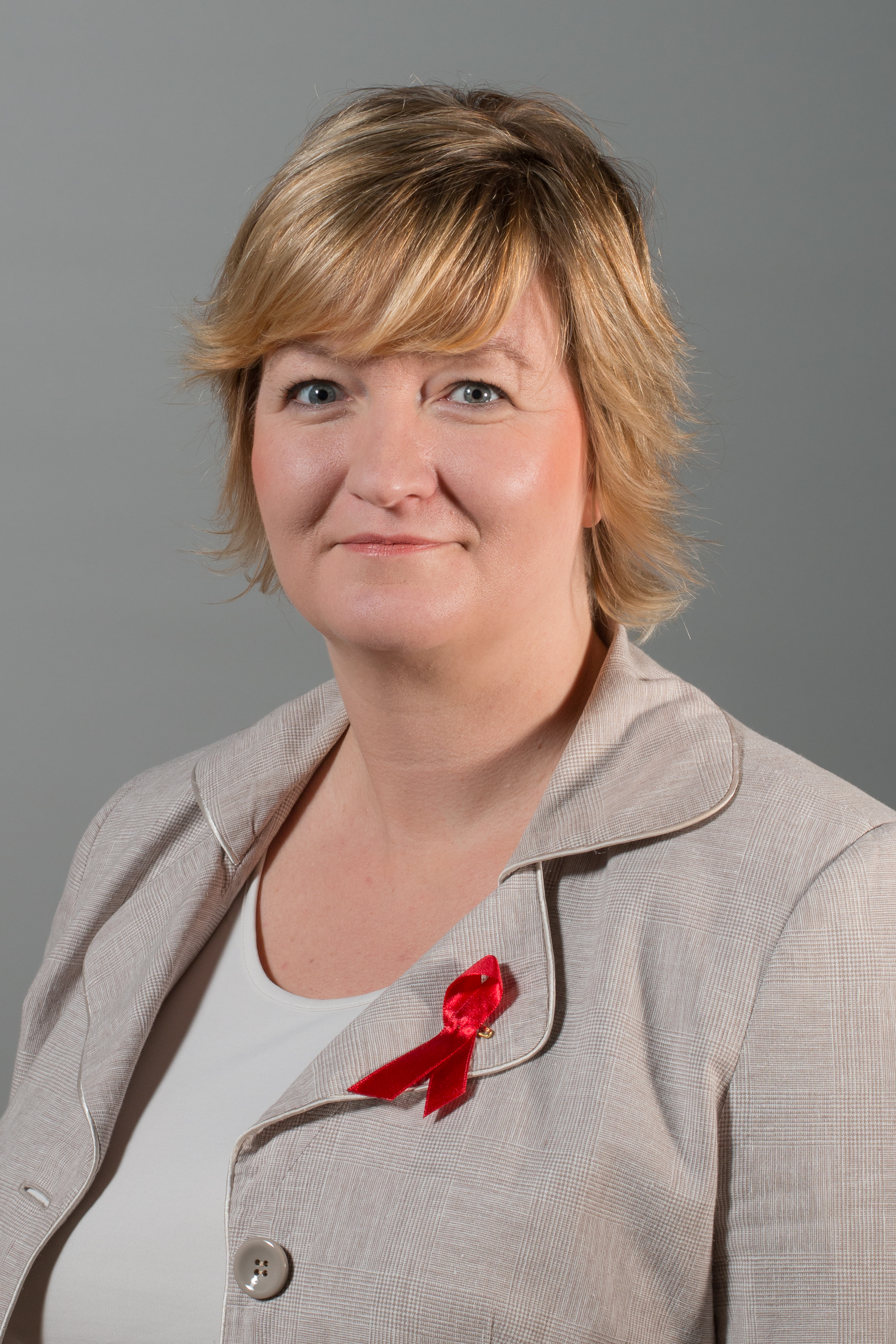 Dagmar Hanses, North Rhine-Westphalian Green Party-politician and member of the Landtag of North Rhine-Westphalia